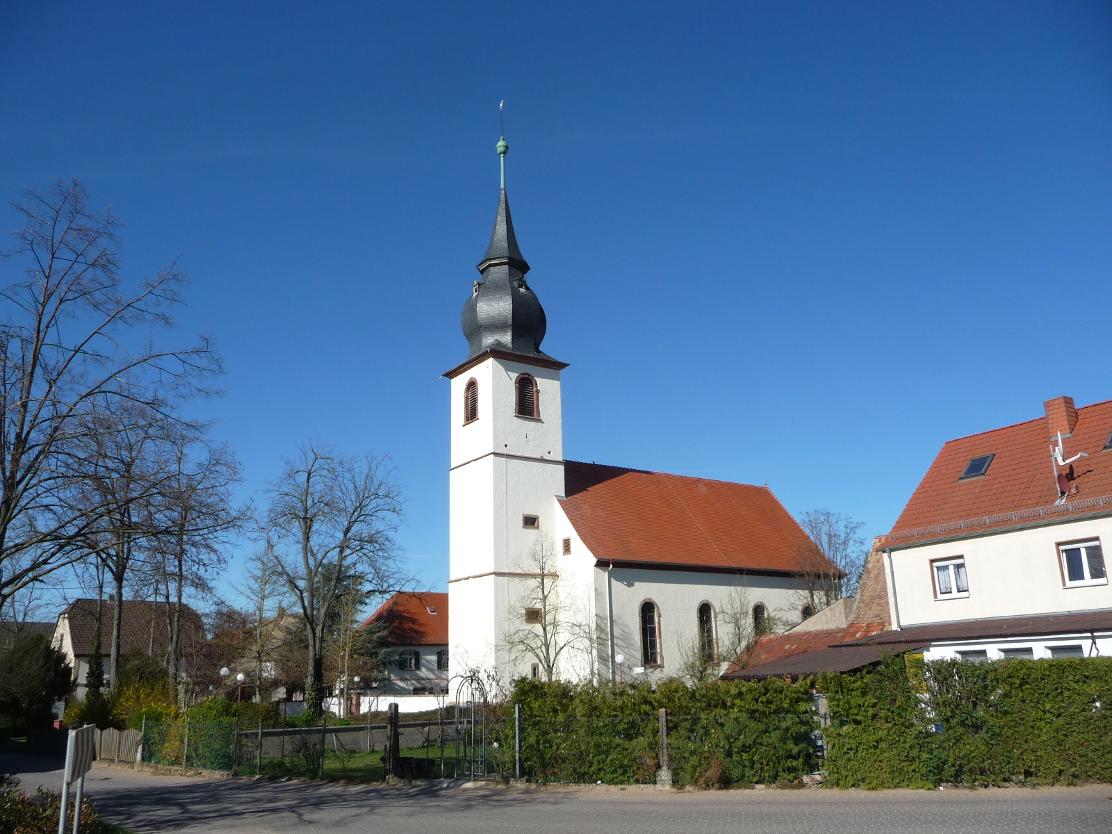 Freisbach in Rhineland-Palatinate, Germany